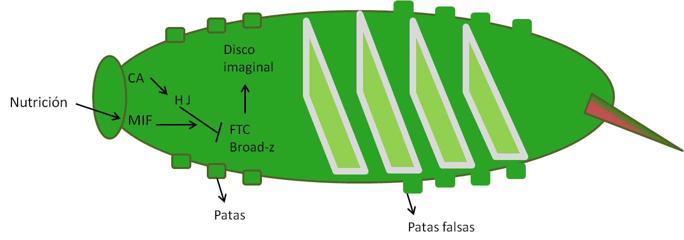 Representación simplificada del proceso que ocurre en el ultimo instar de la larva de M. sexta antes de iniciar la metamorfosis.